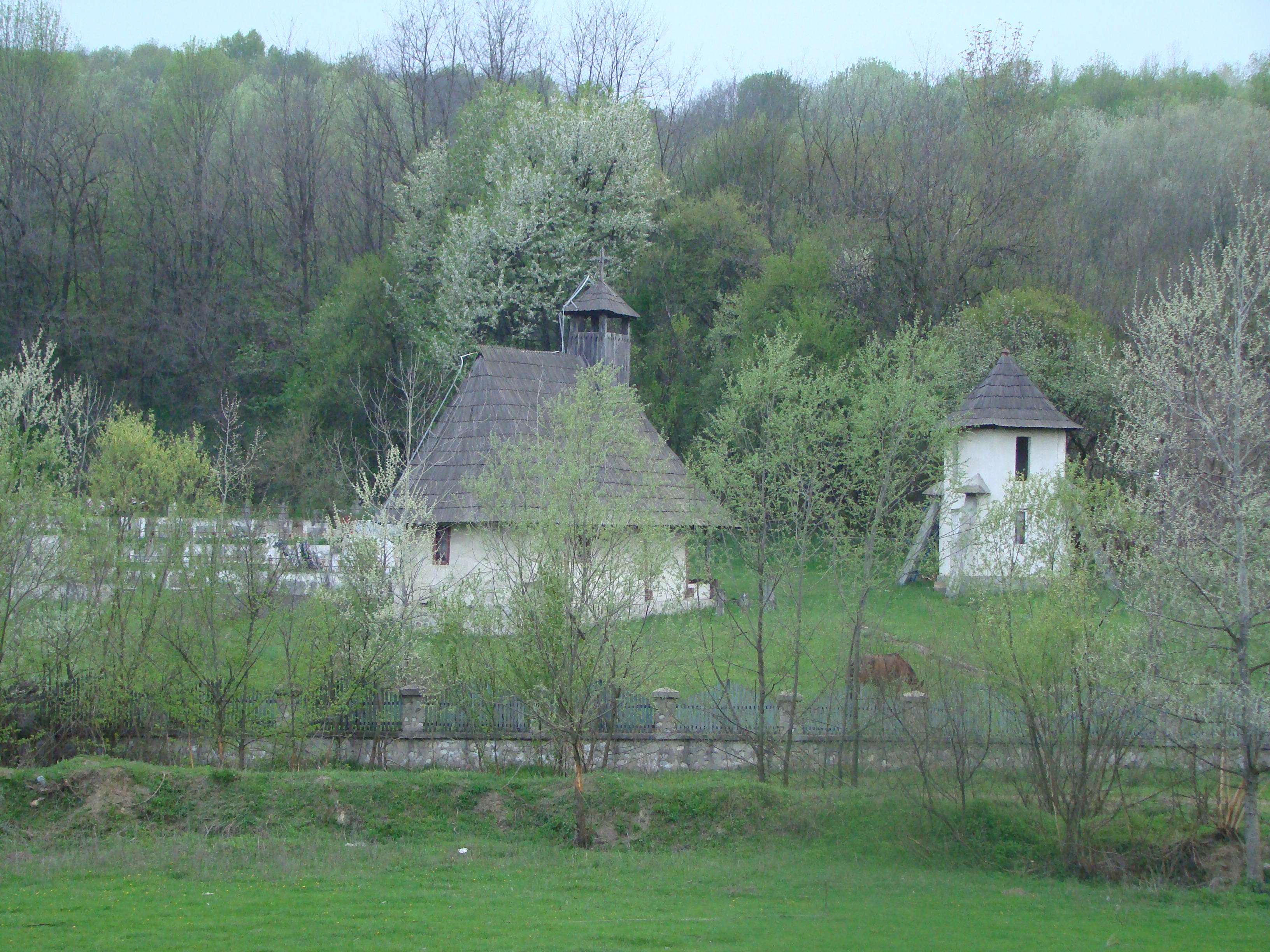 Saint Nicholas wooden church in Știucani, Gorj county, Romania